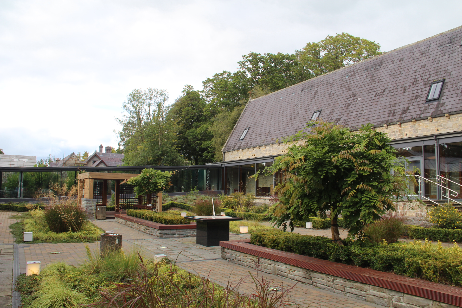 Cúirte Bainise (Wedding Courtyard).